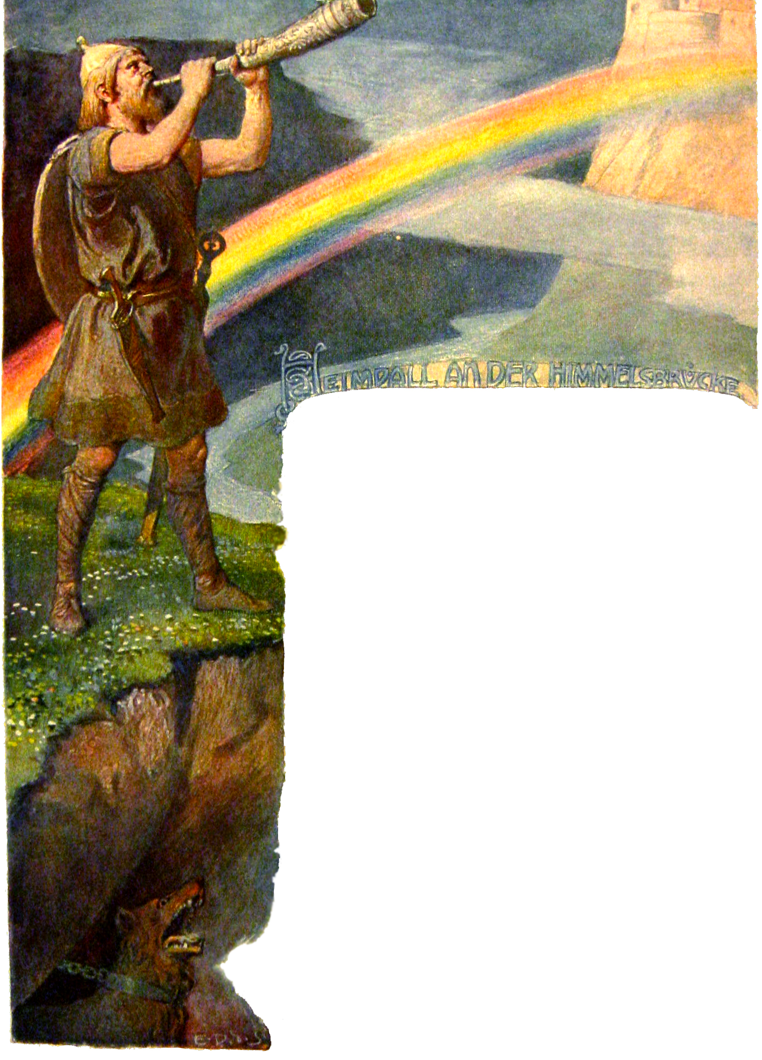 Heimdall an der Himmelsbrücke. Heimdallr stands by the bridge Bifröst, blowing into Gjallarhorn. The bound Fenrir is beneath.